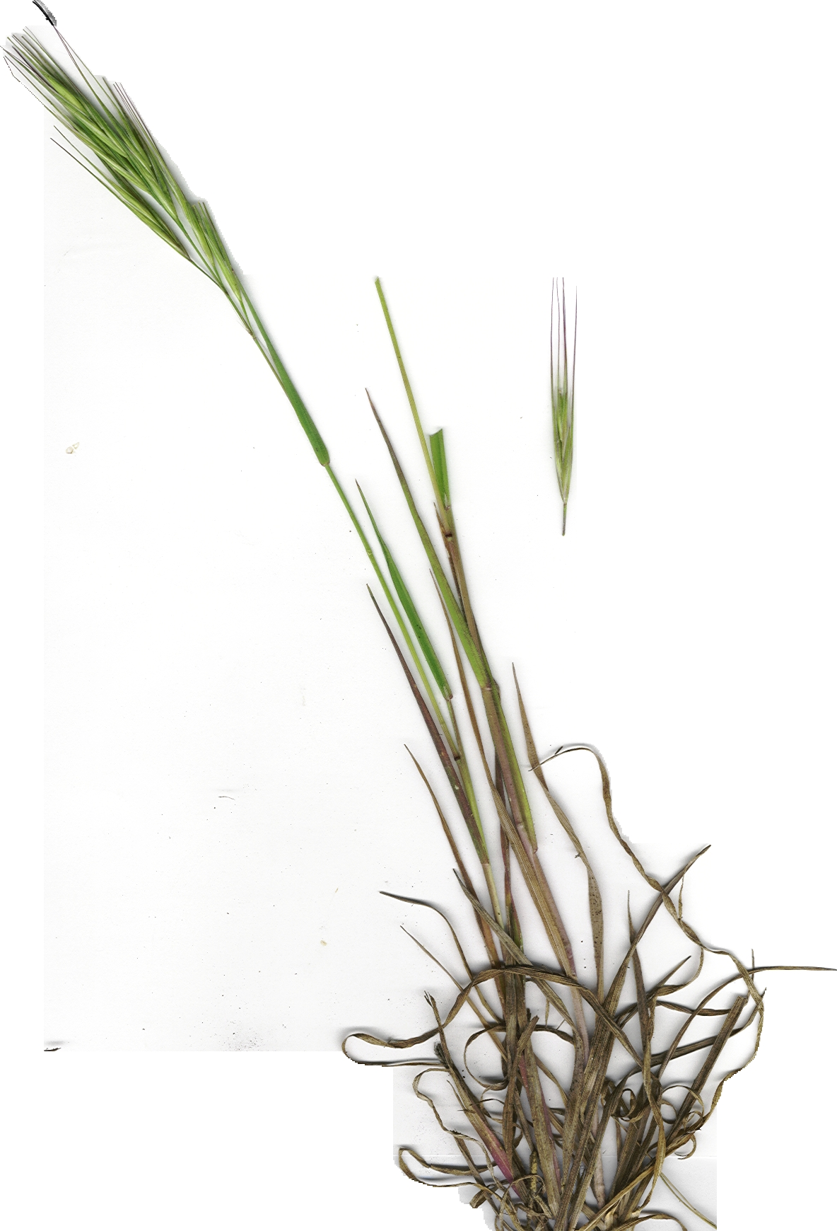 Bromus diandrus (plant). Location: Maui, Sunrise Market Kula